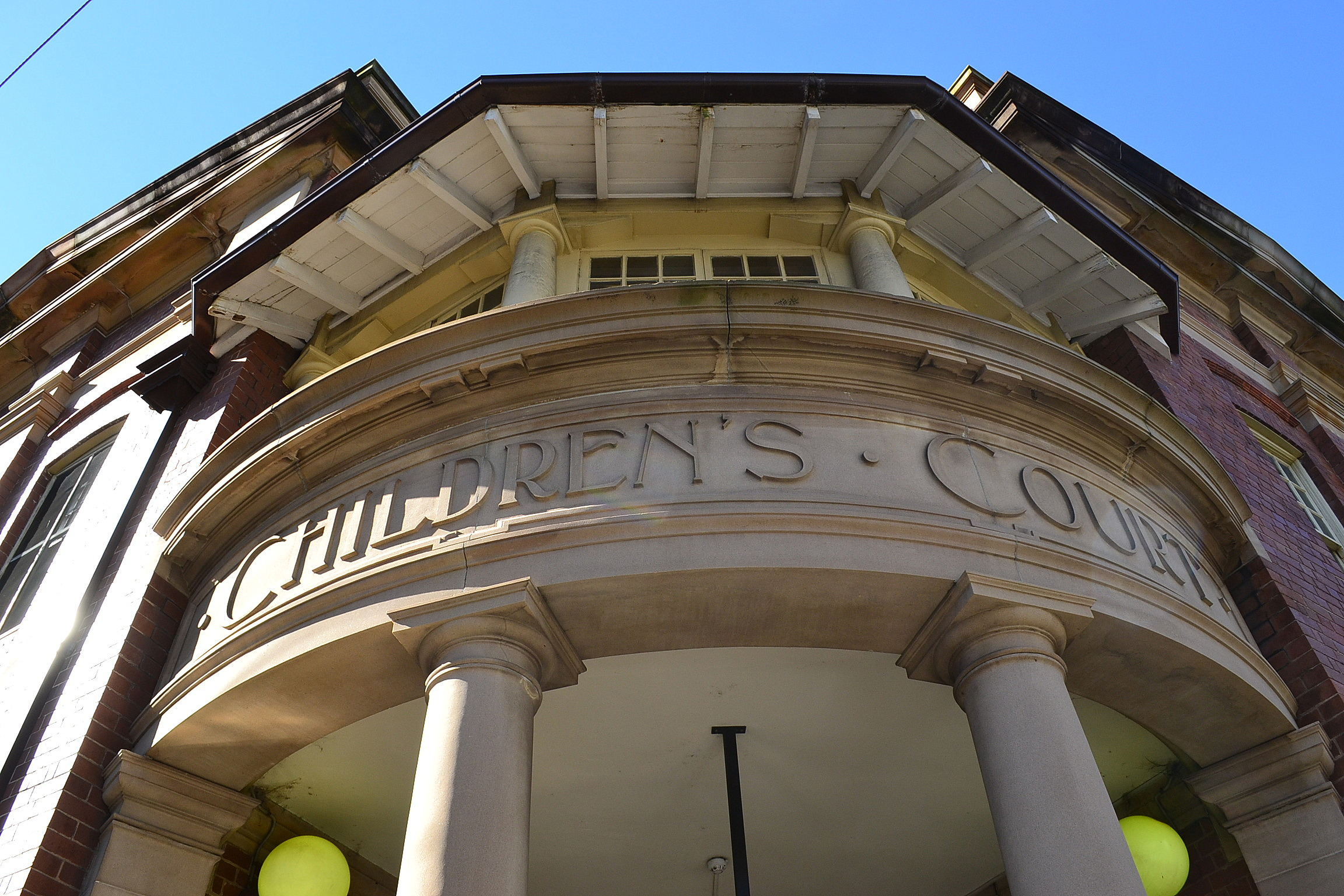 Children's Court, Albion Street, Surry Hills, Sydney